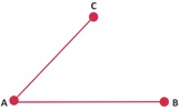 adapted from Mark Granovetter: The Strength of Weak Ties. In: American Journal of Sociology 78 (1973), S. 1360–1380.